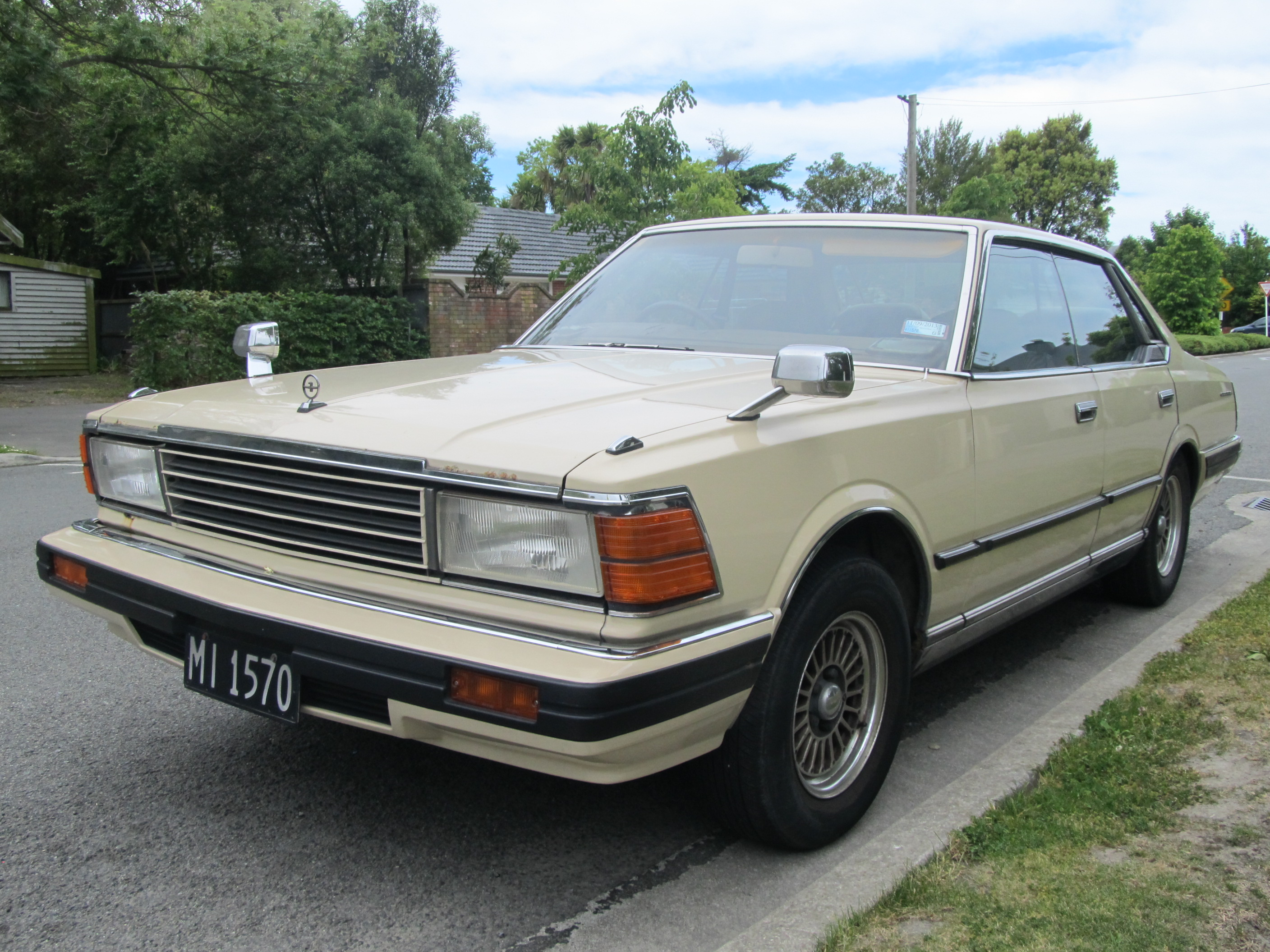 MI1570 One for SpottedLaurel today! This was a surprise spot after leaving the Stewart Collection open day in November, and was in superb condition. It appears to be one of the first Japanese imports that arrived here, first registered in NZ in August 1987. The strange thing is, the plate dates from 1985...